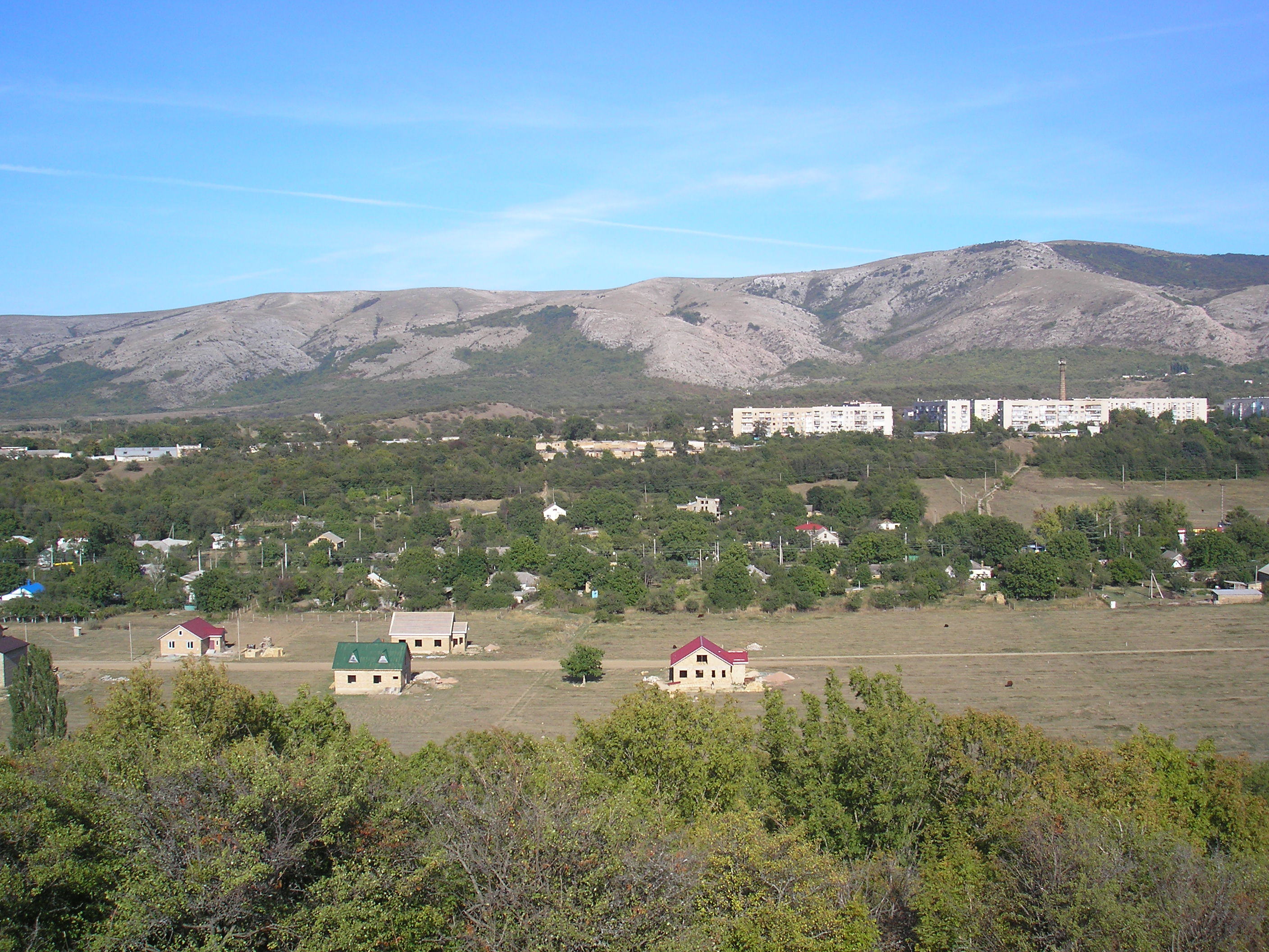 Village Perevalnoe, Simferopol district, Crimea